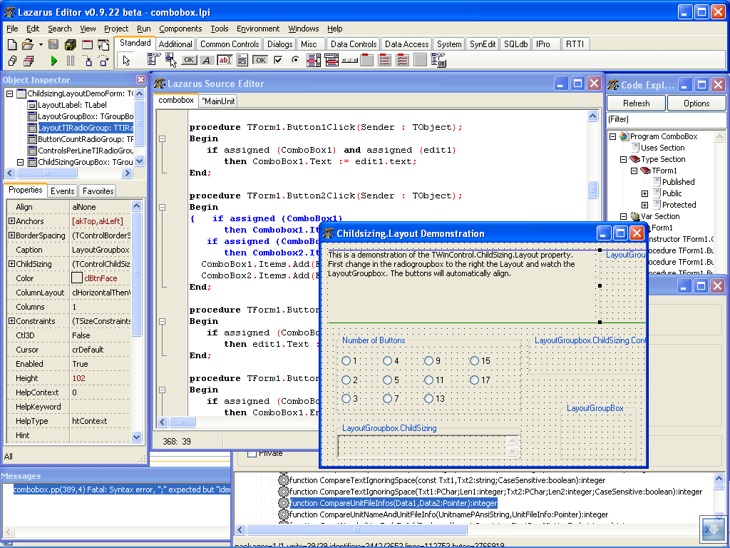 ScreenShot of GPL/LGPL Lazarus project.